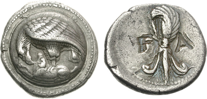 Stater, 388 BC, Olympia. 98th Olympiad